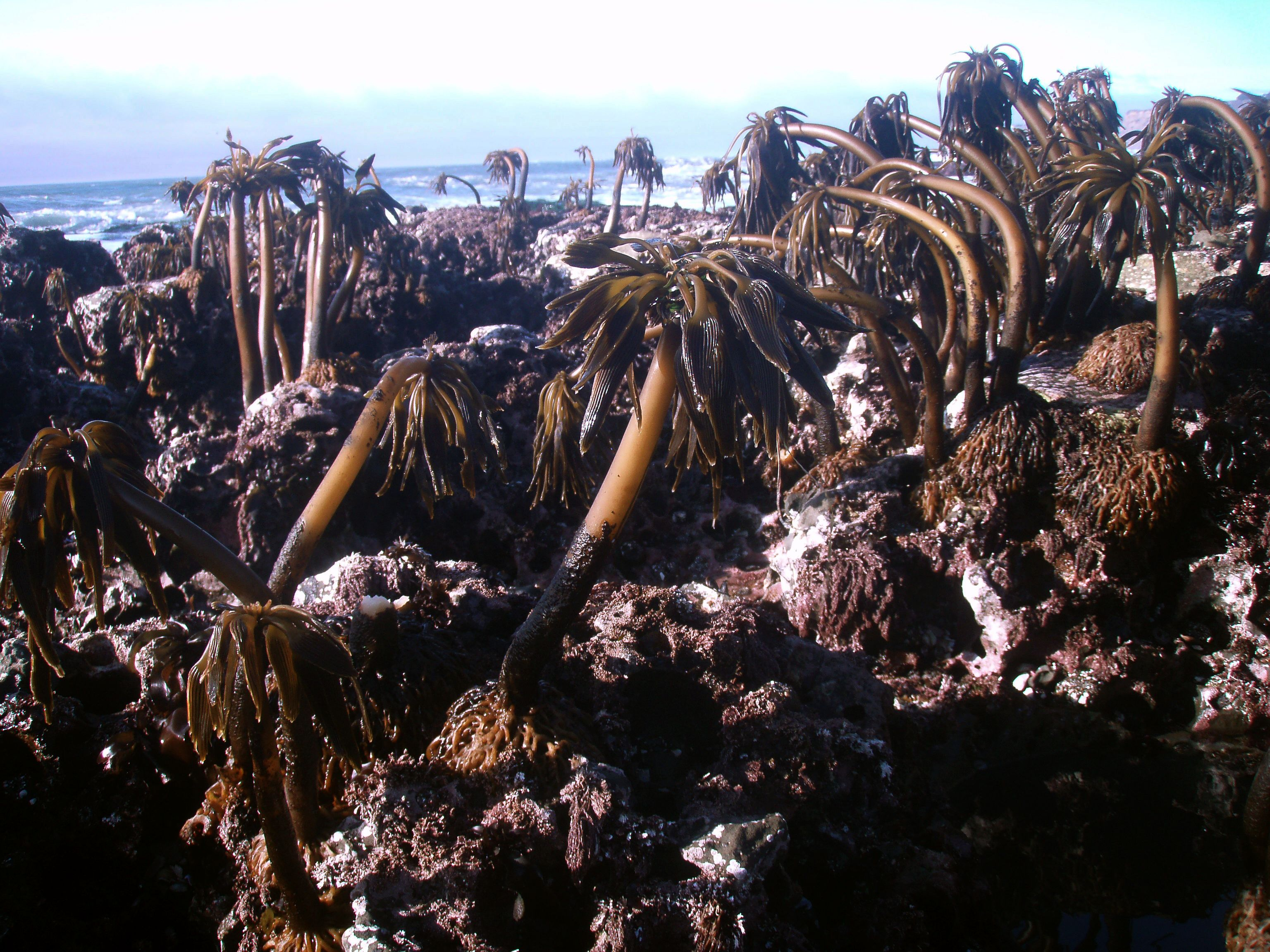 Sea Palm,Postelsia palmaeformis in California tidepool